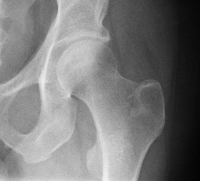 Normal hip-joint Quelle: eigene Aufnahme Autor: User:Scuba-limp